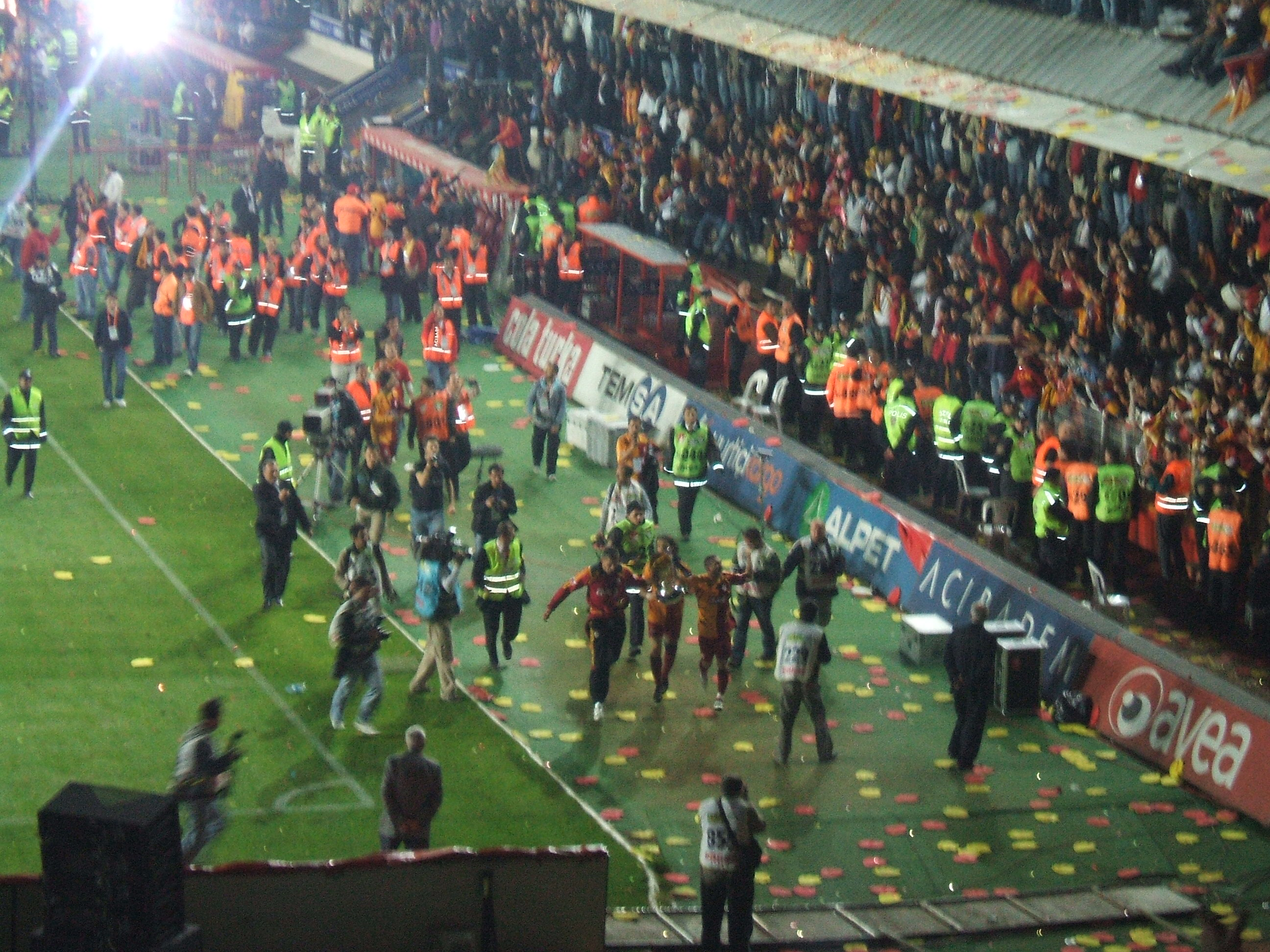 GS 1-0 GOF Türkcell Süperlig 10052008. last mach. tour with superlig cup